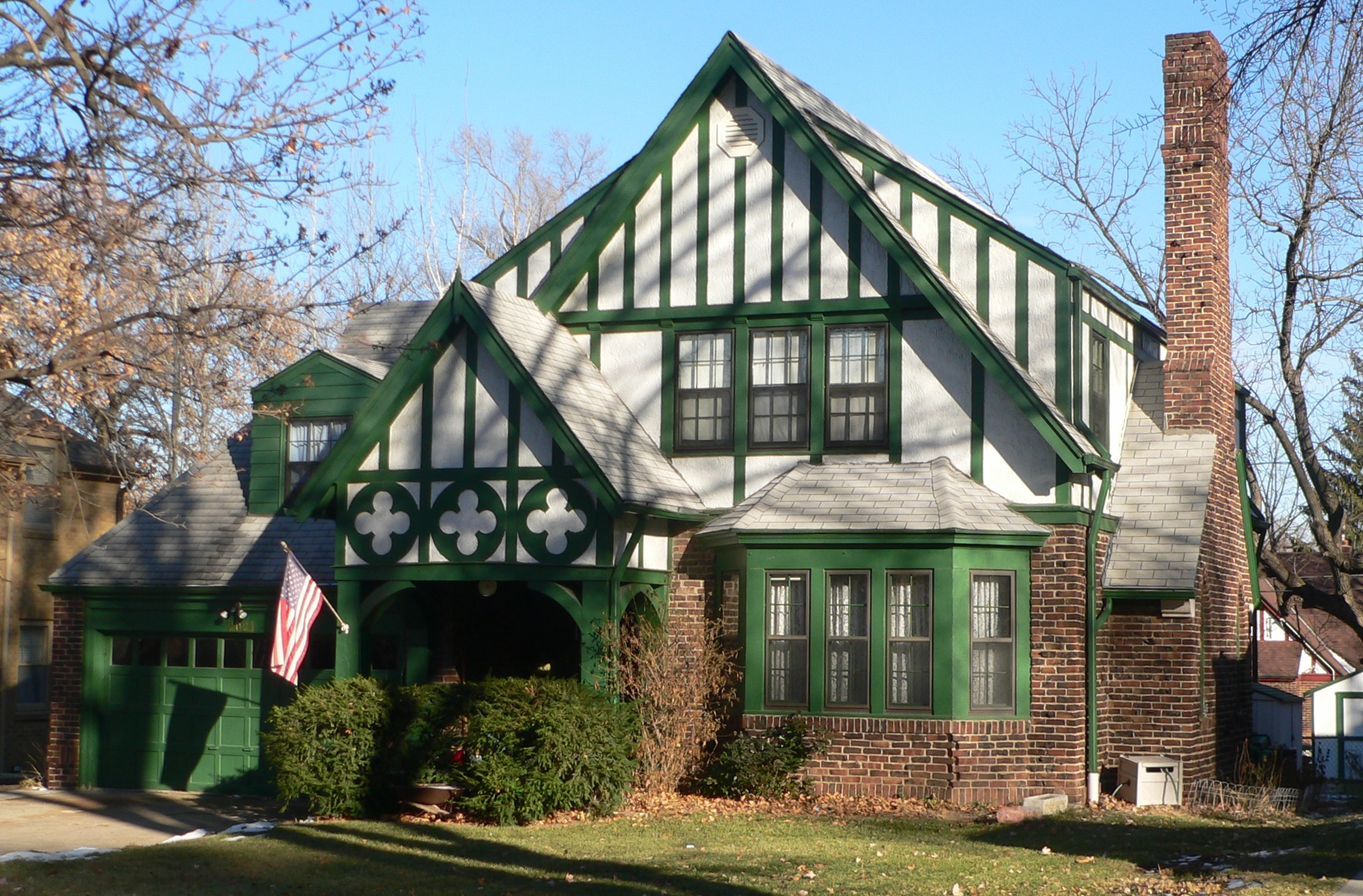 House at 2021 N. 53rd Street in Omaha, Nebraska. The house is part of the Country Club Historic District, listed in the National Register of Historic Places.